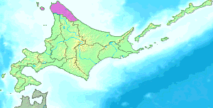 Souya shinkokyoku subpref